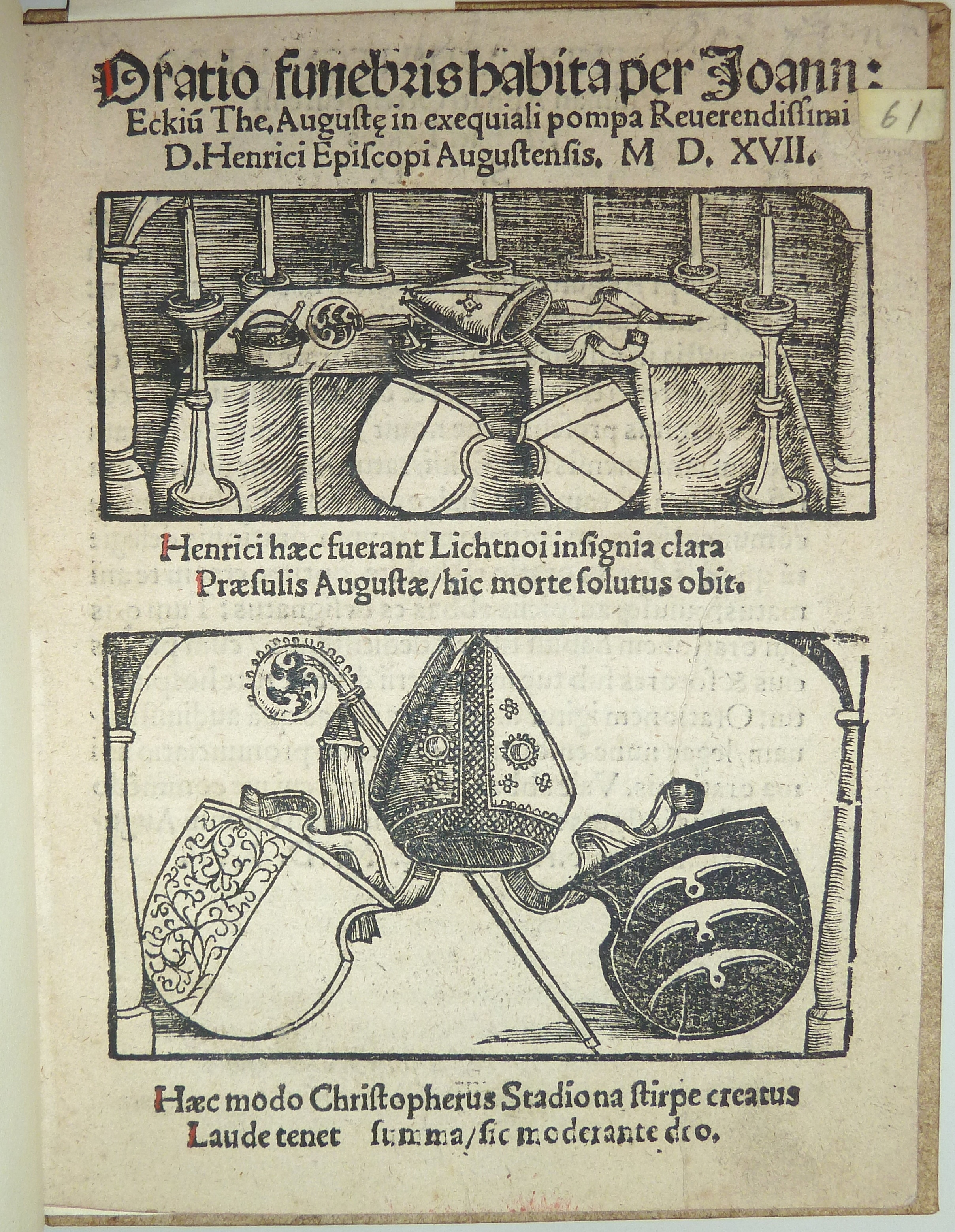 Woodcut coats of arms of Augsburg bishops Heinrich von Lichtenau (ca. 1445-1517) and Christoph von Stadion (1478-1543). Woodcuts used by Silvan Otmar of Augsburg Penn Libraries call number: GC5 Ec510 517o